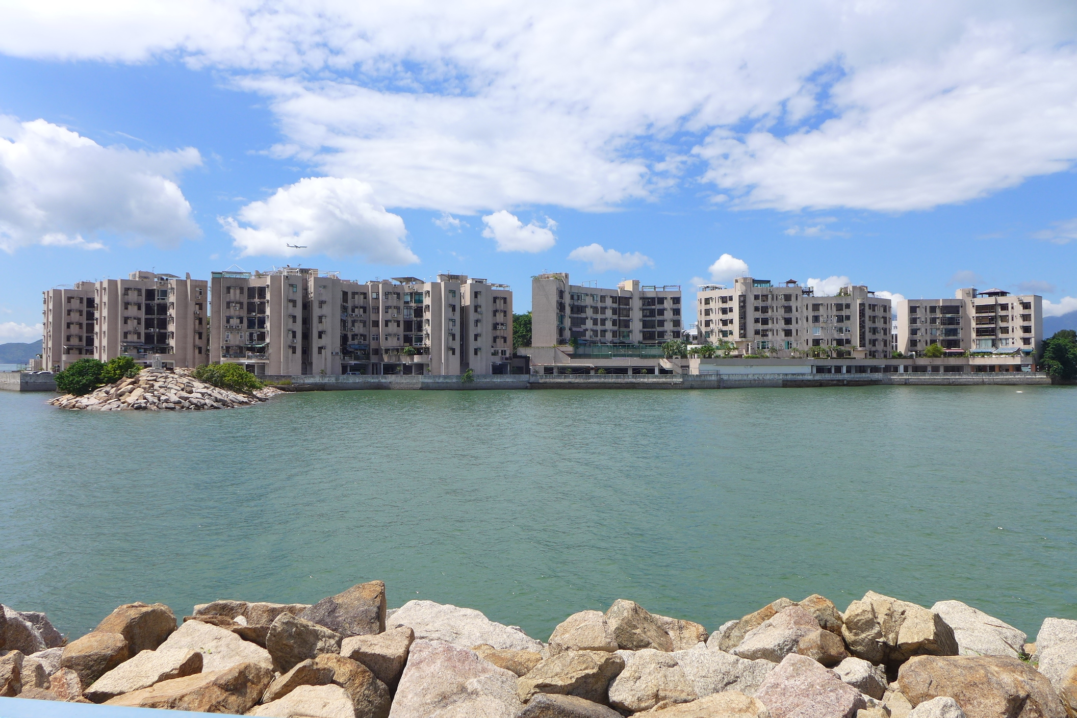 Pearl Island Apartment